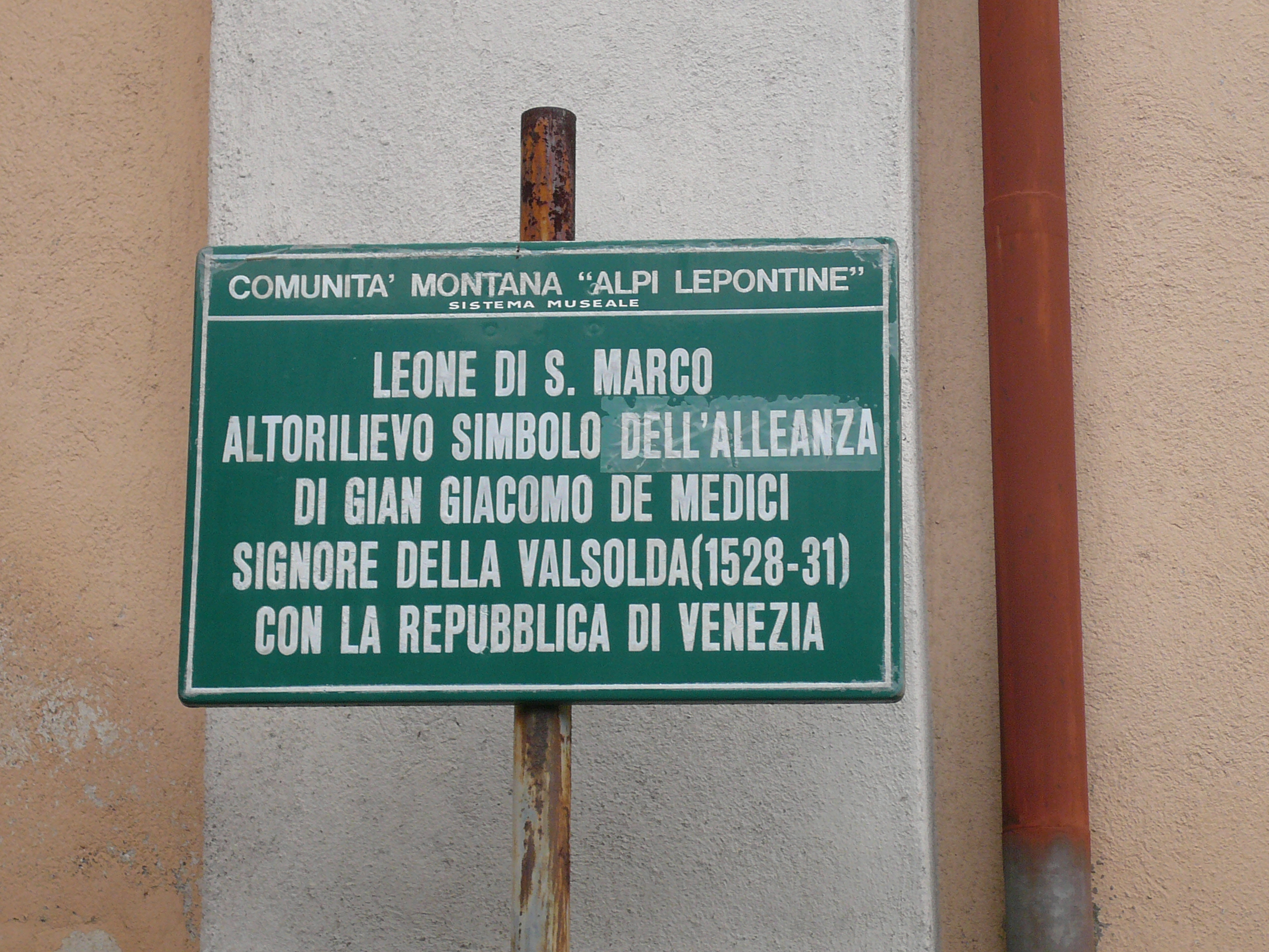 This is the decription of the relief which shows the lion of San Marco and its connection to Gian Giacomo Medici